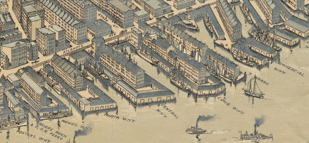 India Wharf, Long Wharf, Rowes Wharf, Commercial Wharf, Atlantic Ave. and vicinity. Detail of 1899 map of Boston by A.E. Downs.